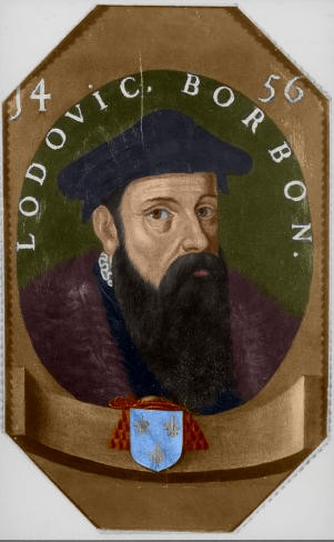 Louis of Bourbon, Prince-Bishop of Liege